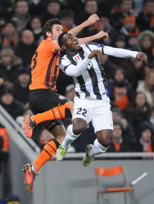 Kwadwo Asamoah players of Juventus